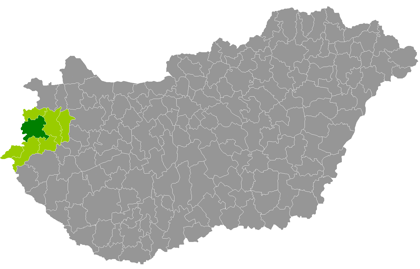 Location of Szombathely District, Vas, Hungary